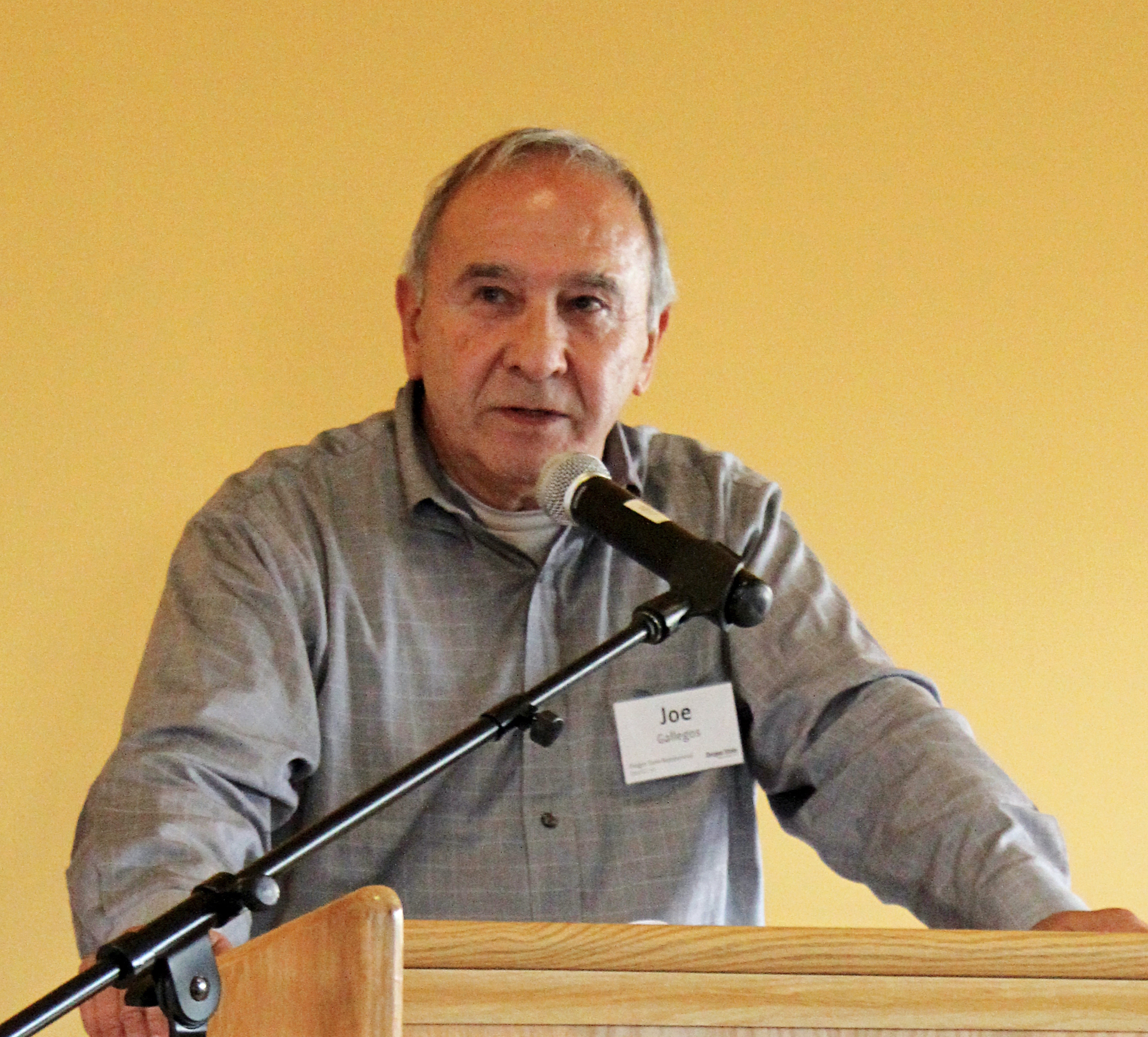 Oregon Representative Joe Gallegos speaking at the opening ceremony for the new Centro Cultural Cesar Chavez at Oregon State University, in 2014.